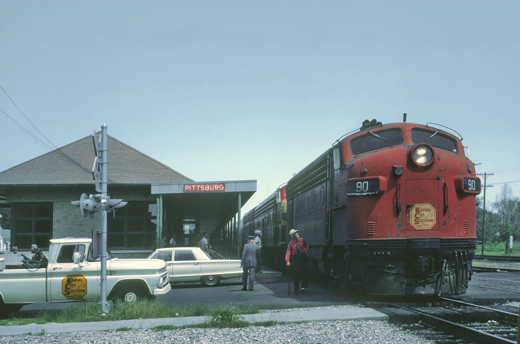 KCS 90 with Train 1, The Southern Belle at Pittsburg, Kansas on July 30, 1967.